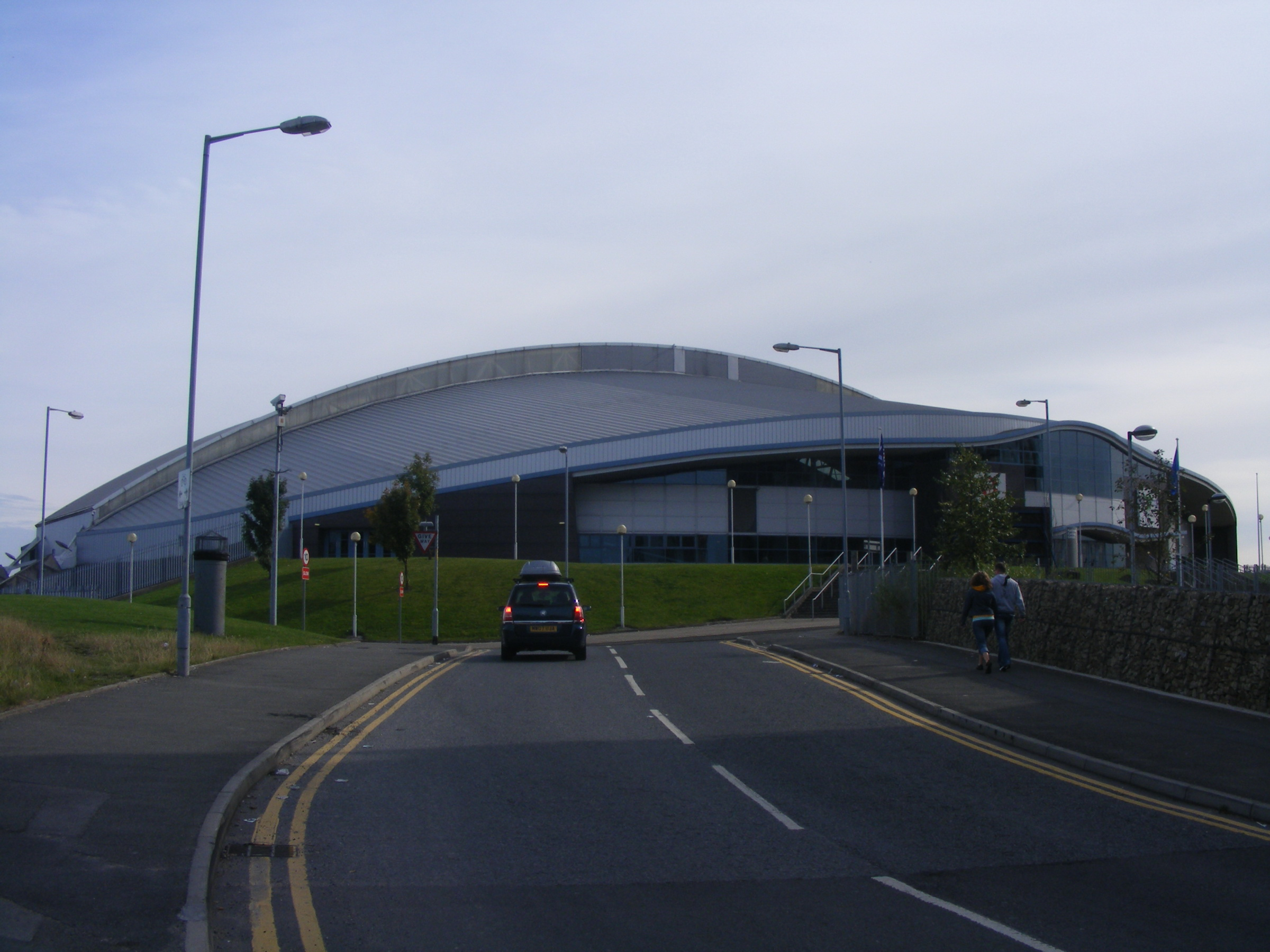 See where this picture was taken. [?]